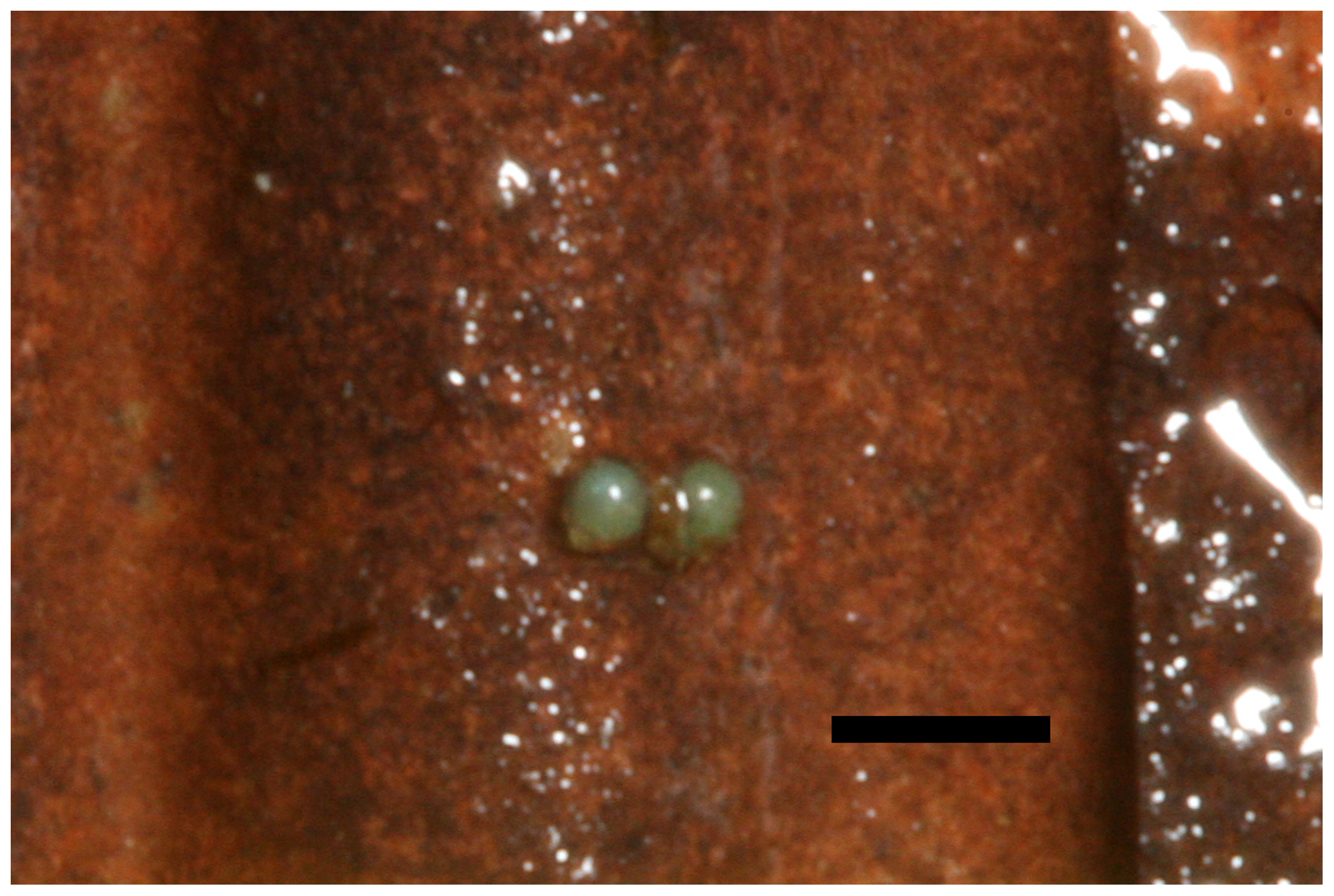 Photograph of two eggs that were laid by captive Leptoxis compacta. Scale bar = 1 mm.